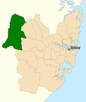 Incorporates or developed using Administrative Boundaries ©PSMA Australia Limited licensed by the Commonwealth of Australia under Creative Commons Attribution 4.0 International licence (CC BY 4.0). Derived from State and Territory Boundaries from the Australian Bureau of Statistics under Creative Commons Attribution 2.5 Australia license (CC BY 2.5 AU)